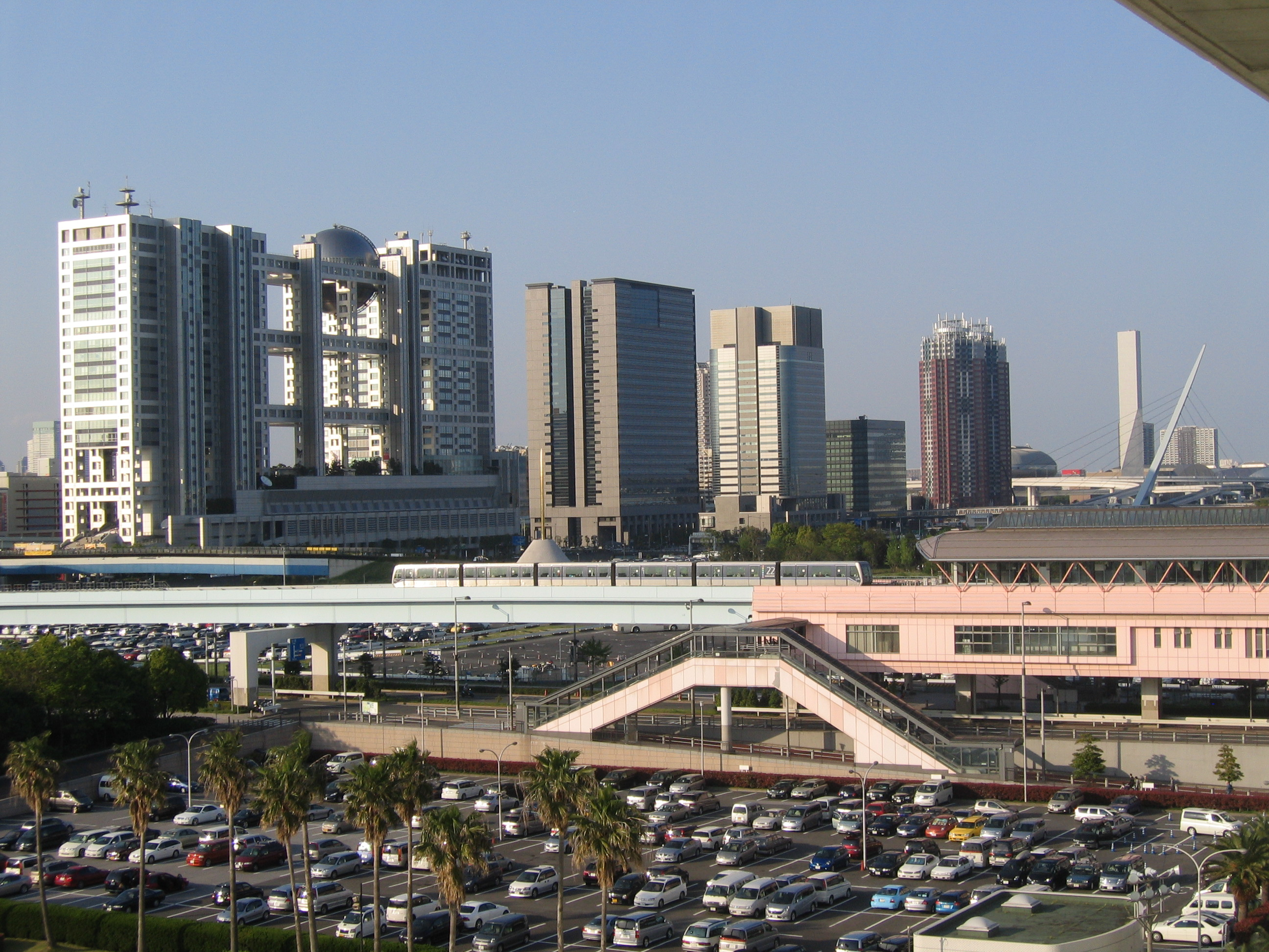 A view of Odaiba, Tokyo. Near the center of the photo are elevated tracks of the Yurikamome, with a train leaving the station. On the left is the distinctive headquarters building of Fuji Television. Taken from the roof of the Museum of Maritime Science in the early evening of May 3, 2006, facing approximately northwest.